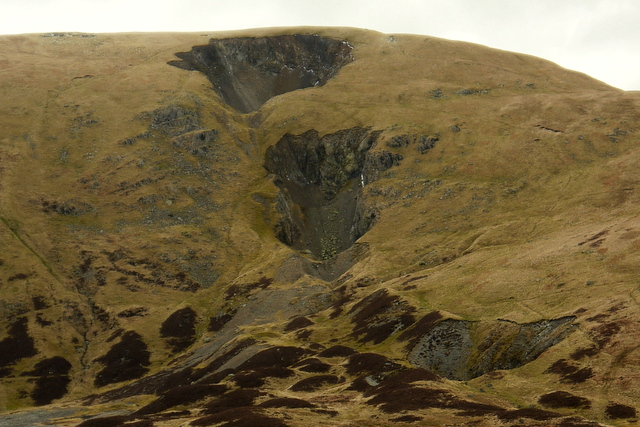 The collapse holes, with old and newer spoil heaps, seen from across the valley